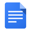 Google docs